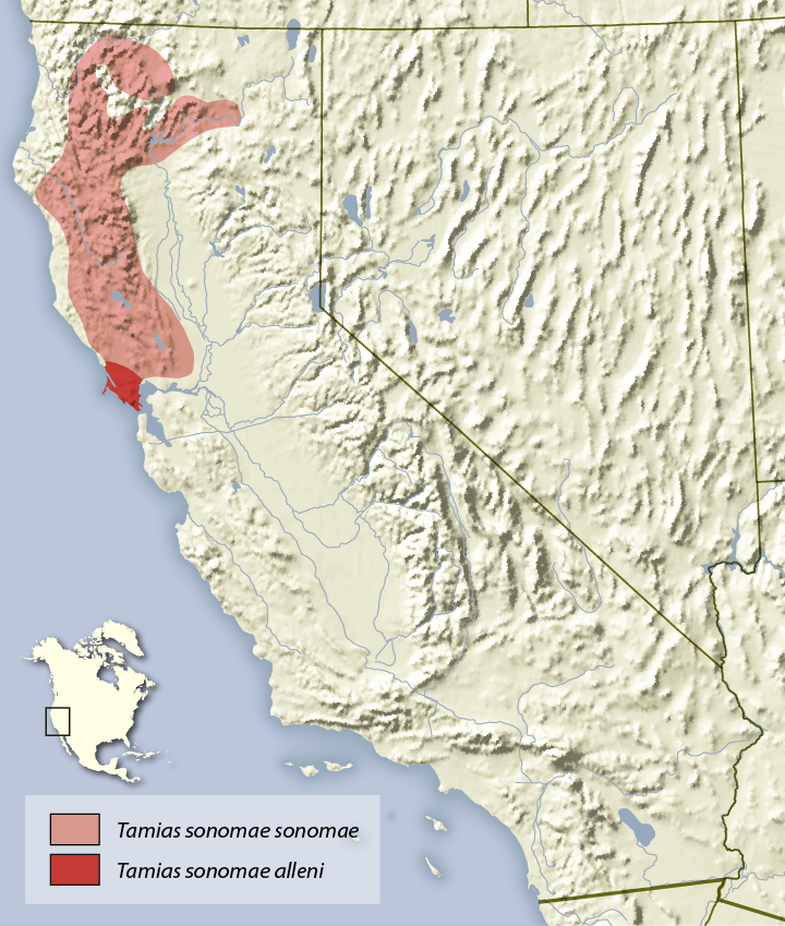 Distribution map of the Sonoma chipmunk